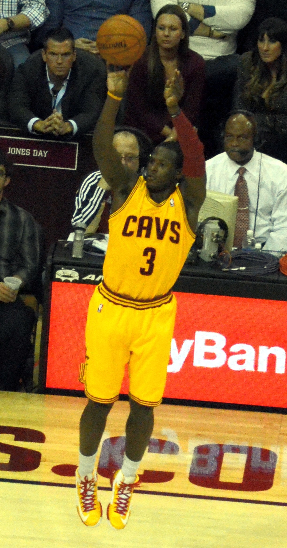 Dion Waiters of the Cleveland Cavaliers